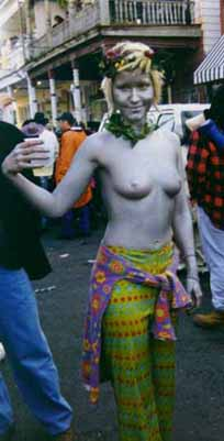 New Orleans: Costumed street reveler, Frenchmen Street, Marigny neighborhood, Mardi Gras Day, 1997. Alternate version derived from same photo: Image:FrenchmenSilverGal2.jpg Photo by Infrogmation Previously uploaded by me to Wikipedia on 14 February, 2004.